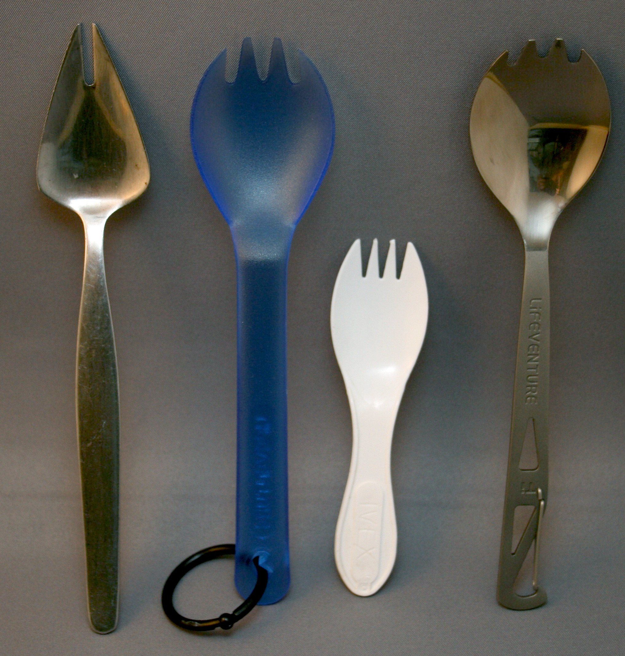 Four versions of the Spork Stainless steel, unknown maker, manufactured probably in the 1960s or 1970s Lifeventure Lexan (plastic) Forkspoon Disposal forkspoon/spork supplied with take-away food Lifeventure Titanium Forkspoon